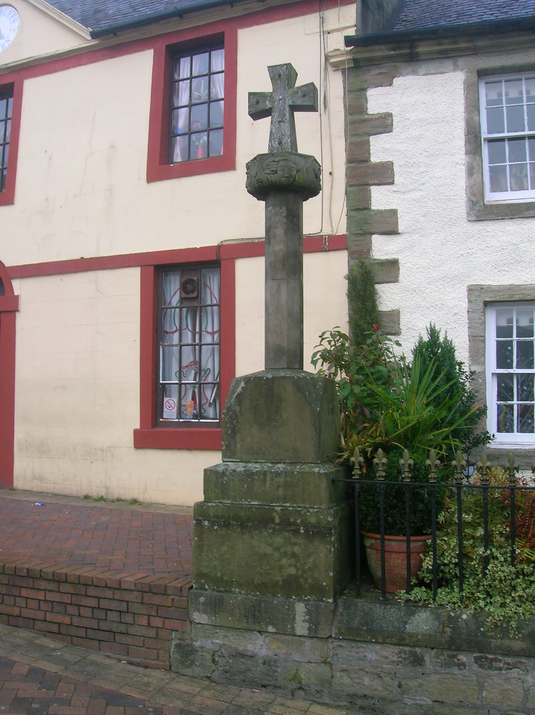 Saint Winning's Cross, Kilwinning, North Ayrshire, Scotland.